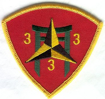 The patch worn by members of the 3rd Battalion, 3rd Marines during the Vietnam War.